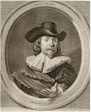 Kok, Frans Banning, lord of Ilpenstein, Netherlands